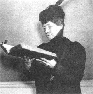 Isabella Stewart Gardner